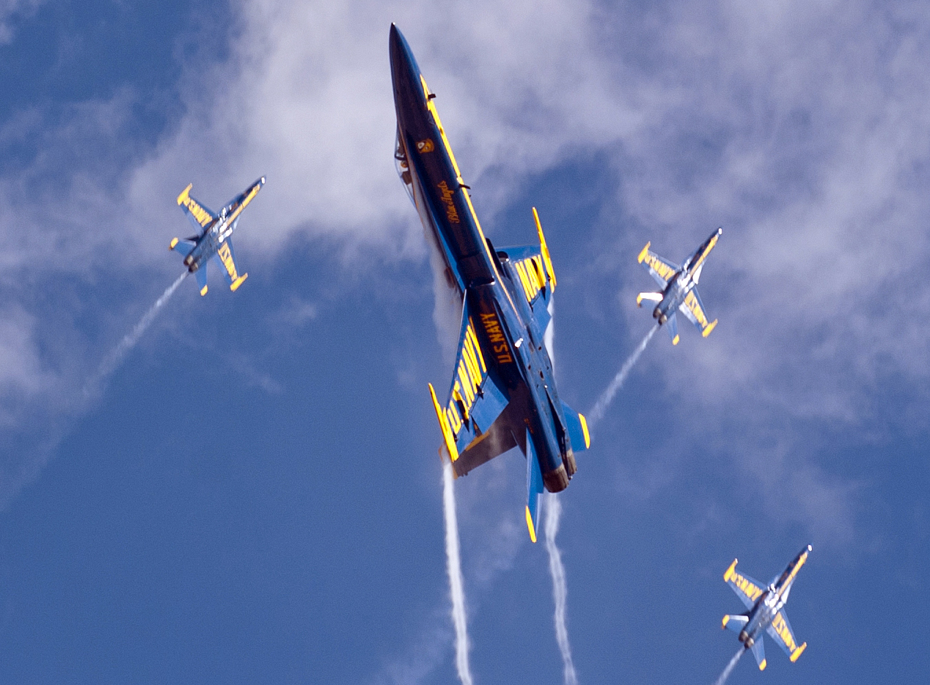 SAN DIEGO (Oct. 3, 2010) Members of the U.S. Navy flight demonstration squadron, the Blue Angels, perform during the Marine Corps Air Station Miramar 2010 Air Show. (U.S. Navy photo by Mass Communication Specialist 2nd Class James R. Evans/Released)